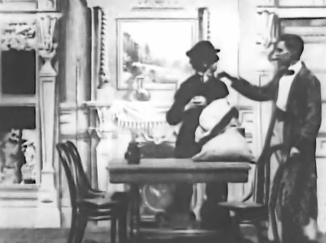 Still from the 1903 moving picture Sherlock Holmes Baffled.